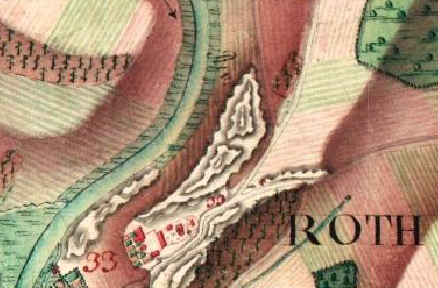 Roth-an-der-Our, Germany, on the map of Ferraris.